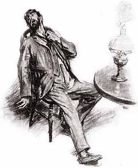 Arthur Conan Doyle, The Adventure of the Devil's Foot (1910), Illustration by Gilbert Holiday, in The Strand Magazine